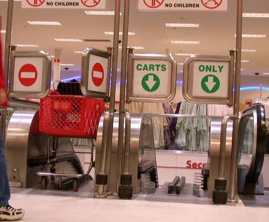 Vermaport in a Target Store in the Pheasant Lane Mall in Nashua, New Hampshire © 2004 Matthew Trump